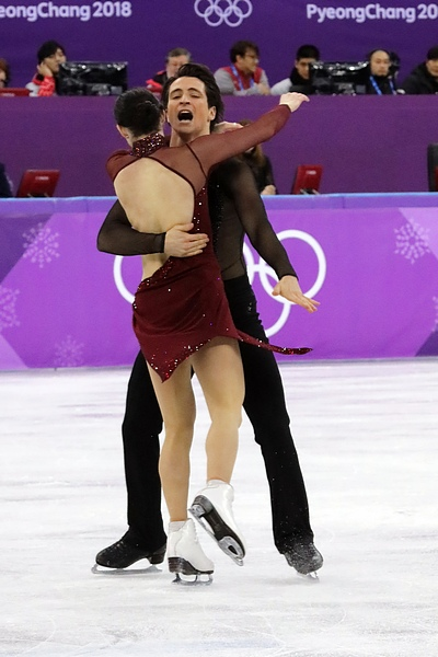 Tessa Virtue and Scott Moir at the 2018 Winter Olympic Games in PyeongChang